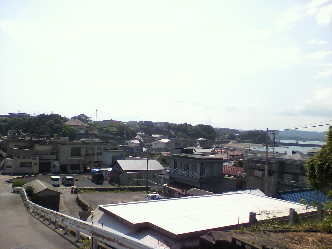 This is a landscape of Agocho-Anori, Shima city, Mie prefecture, Japan.